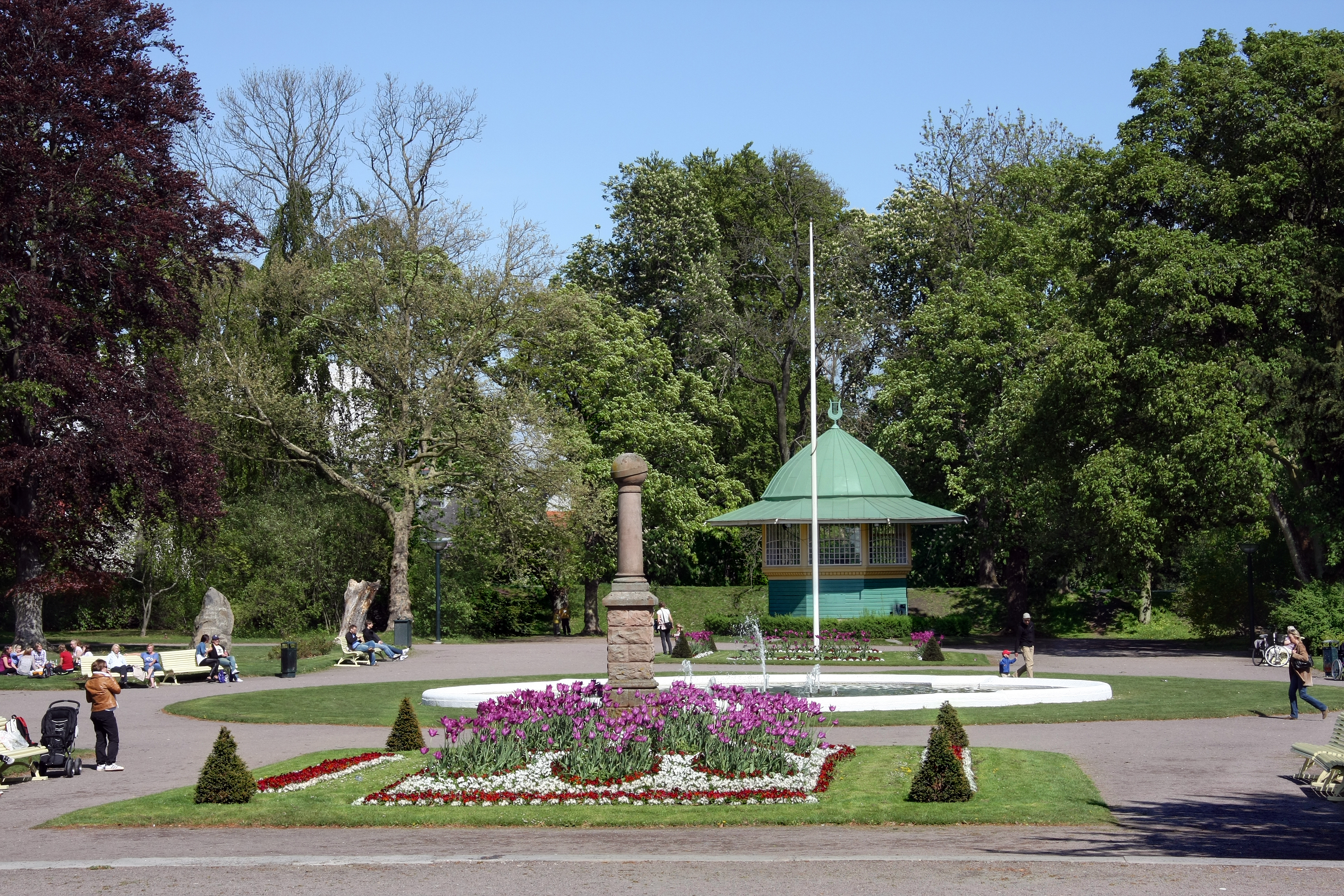 Stadsparken city park in Lund, Sweden